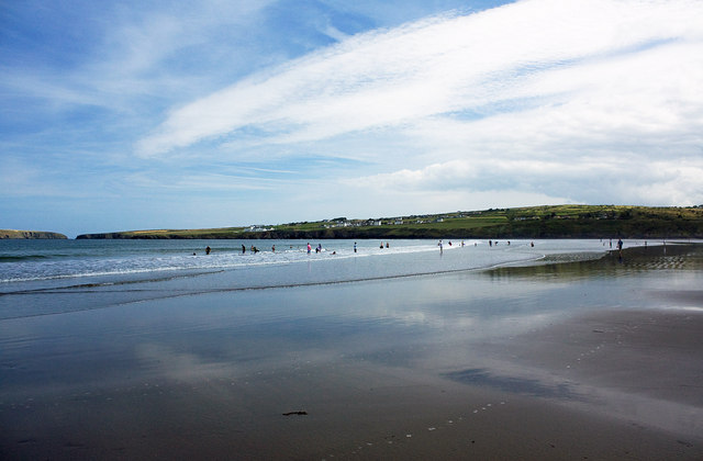 Poppit Sands, St Dogmaels I checked this carefully by GPS and triangulation! The maps show "mean low water", but the sea goes out much further at low spring tide, which this was.